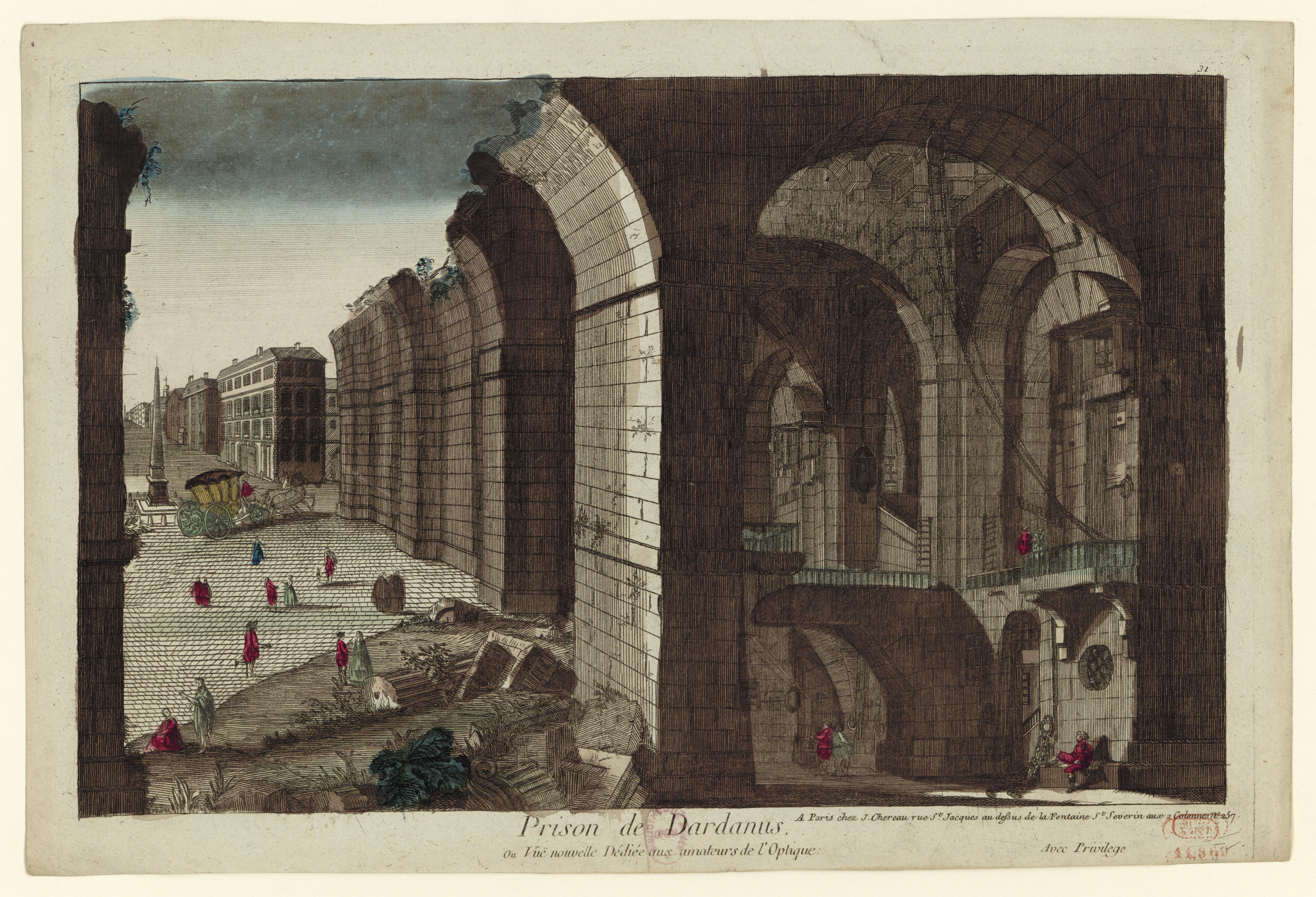 Prison of Dardanus, from Act IV of the revised version of Jean-Philippe Rameau's opera Dardanus. Engraving (with added colour), 23 x 35 cm.